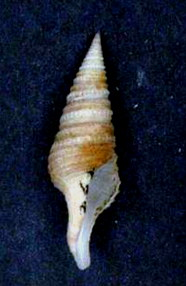 Gemmula gilchristi (Sowerby III, 1902); family Turridae; South Africa